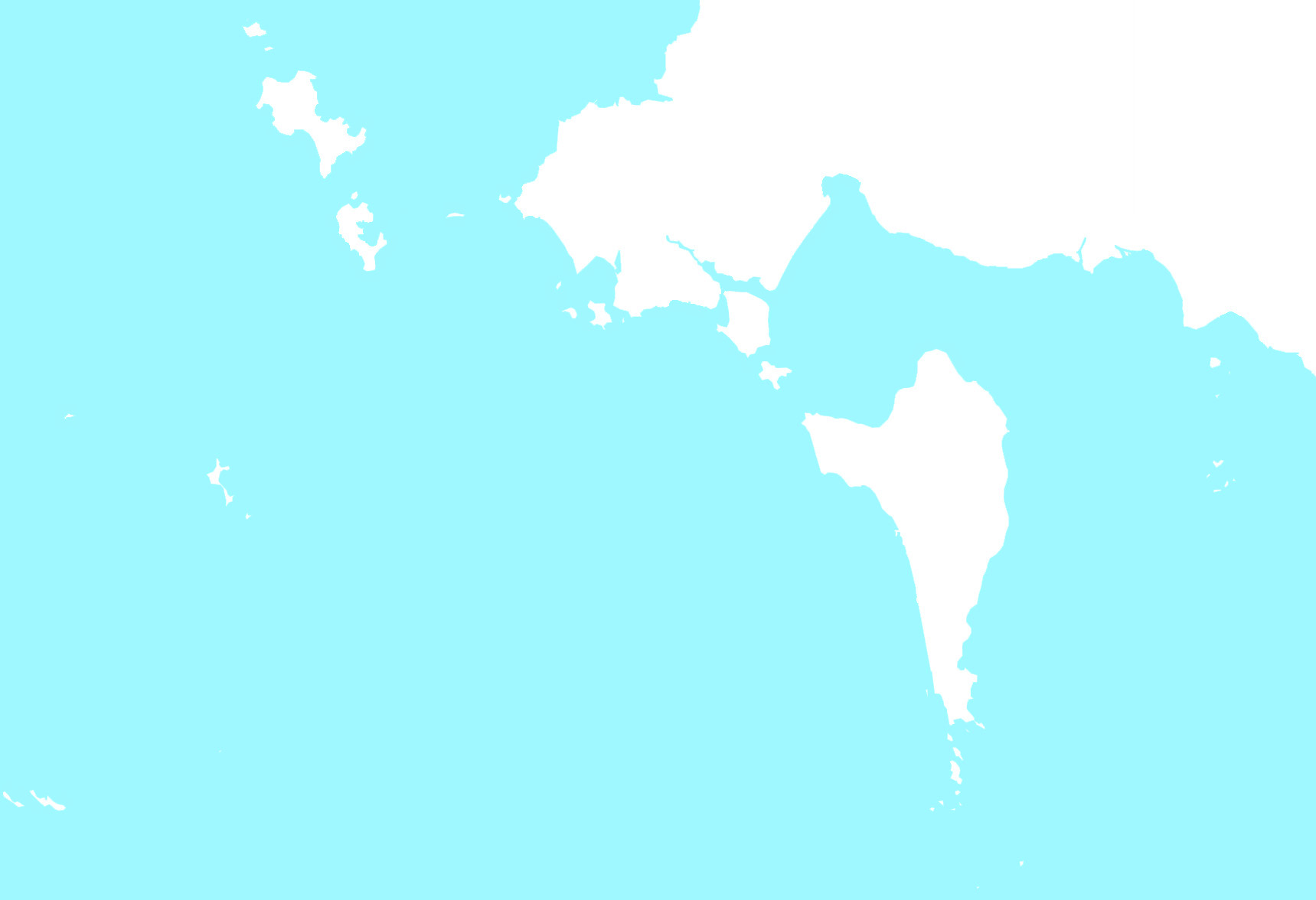 Location map of Cambodia's islands South